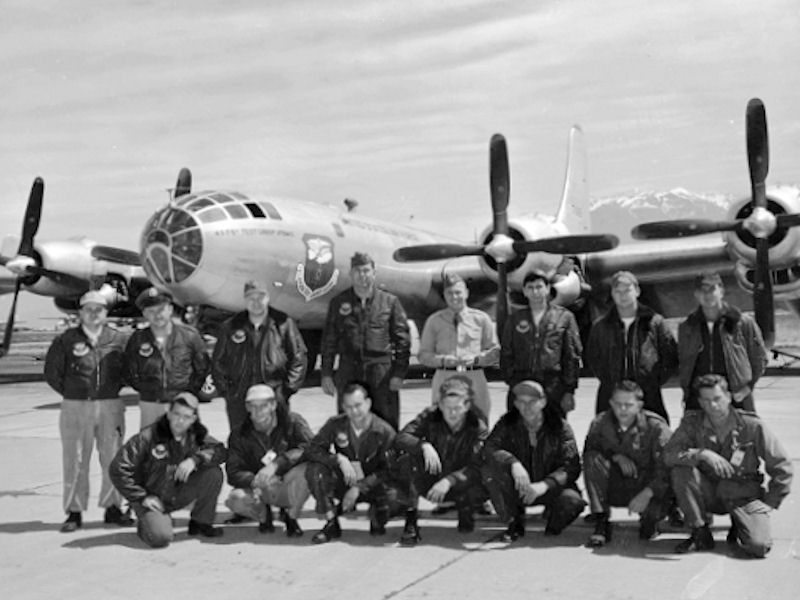 4925th Test Group Boeing B-50D-65-BO Superfortress 47-165, Kirtland AFB, New Mexico